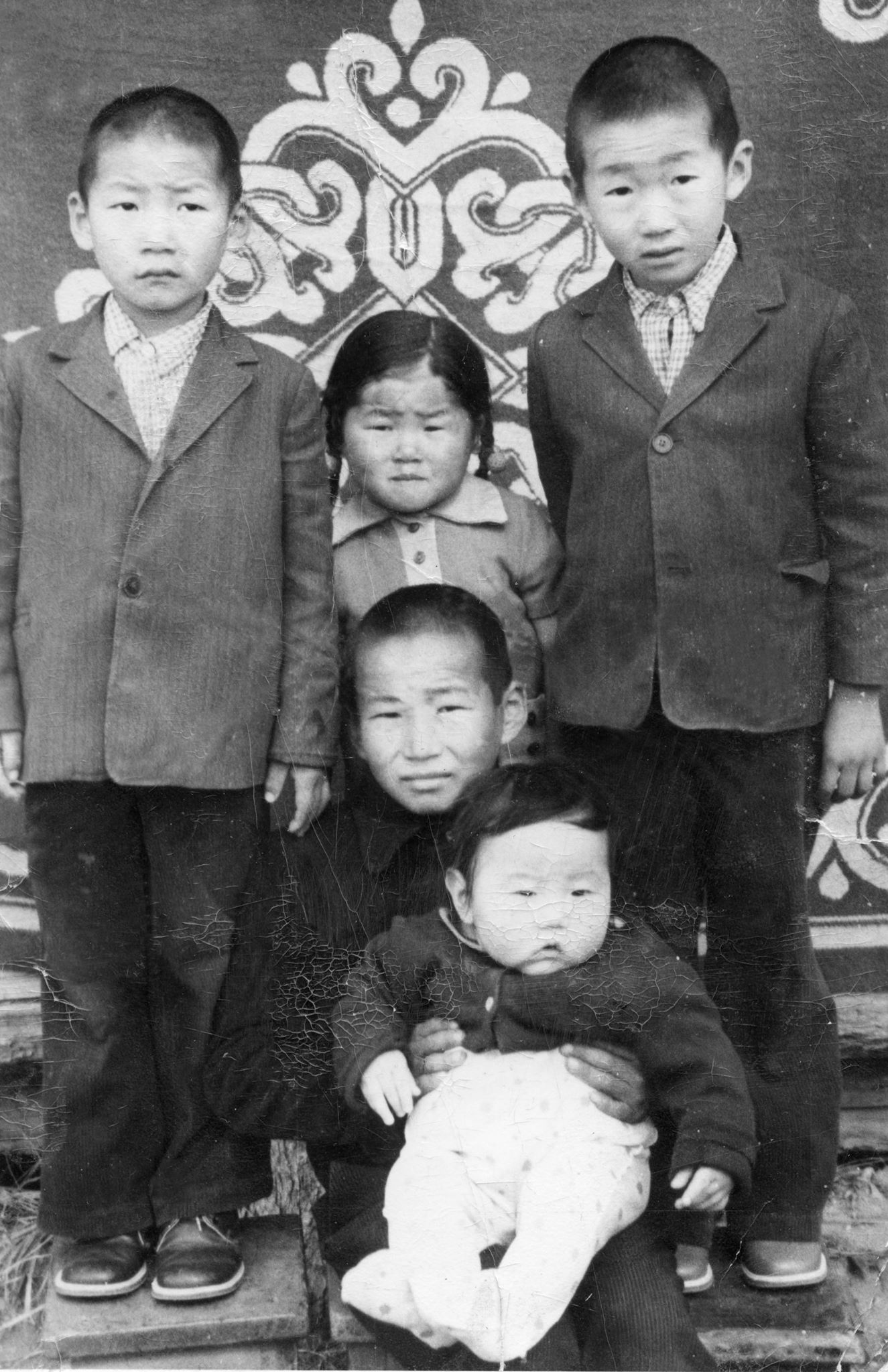 Хүүхэд нас